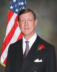 Ford M. Fraker. As of 2008, the United States Ambassador to Saudi Arabia.